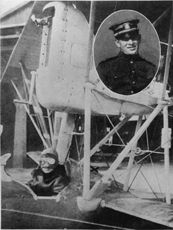 Photograph of Lieutenant George H. Ludlow, US Navy, seated in an Italian-built Macchi M.5 flying boat (left). Ludlow flew a dropping mission to the Austrian-Hungarian port of Pola in the Adriatic Sea. Inset is a photograph of Ensign Charles H. Hammann, who was awarded the Medal of Honor for rescuing Ludlow on 21 August 1918 after his plane was disabled by enemy fire.